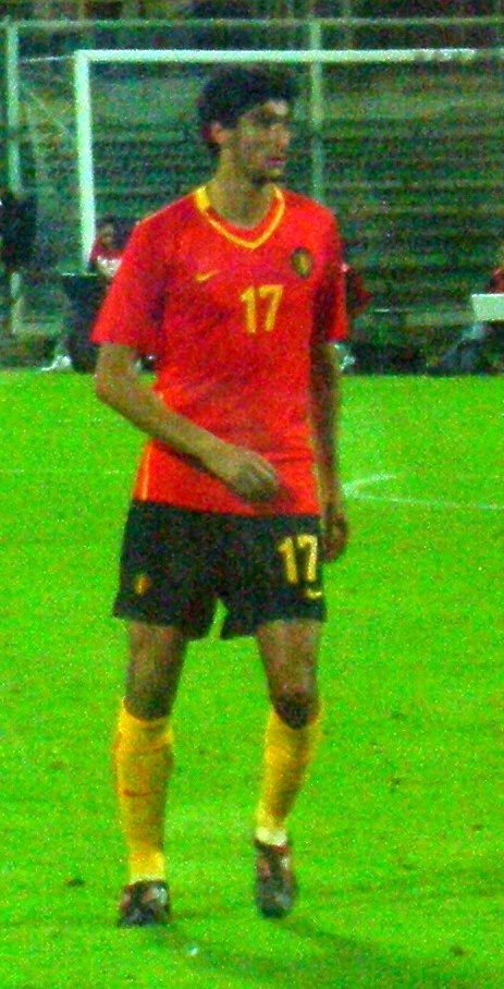 Marouane Fellaini, player photo, made during the friendly football match Italy vs Belgium, played May 30, 2008 in Florence (Italy)